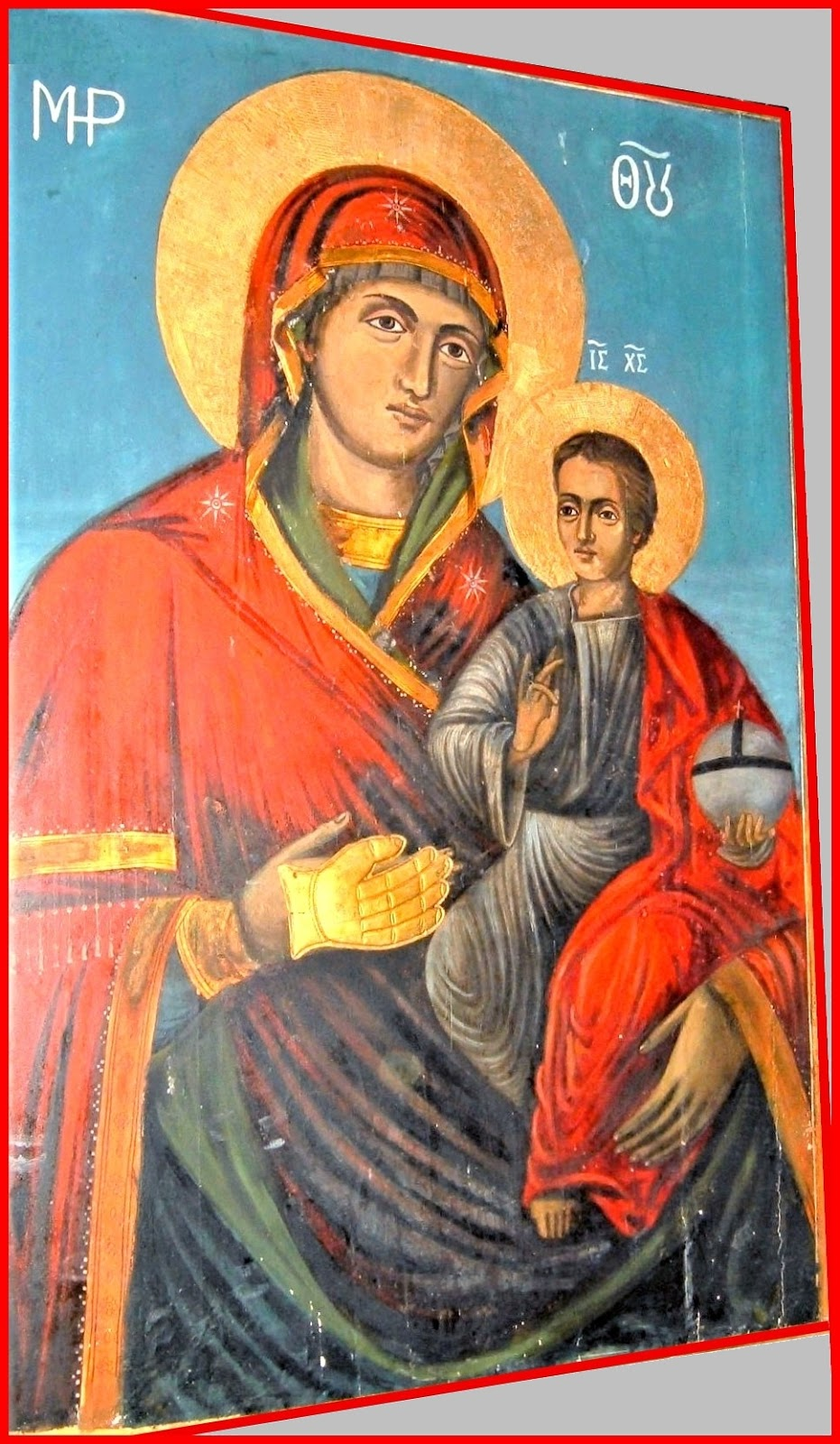 Saint Mary Odigitria Icon in Dolno Drenoveni Kato Kranionas Church